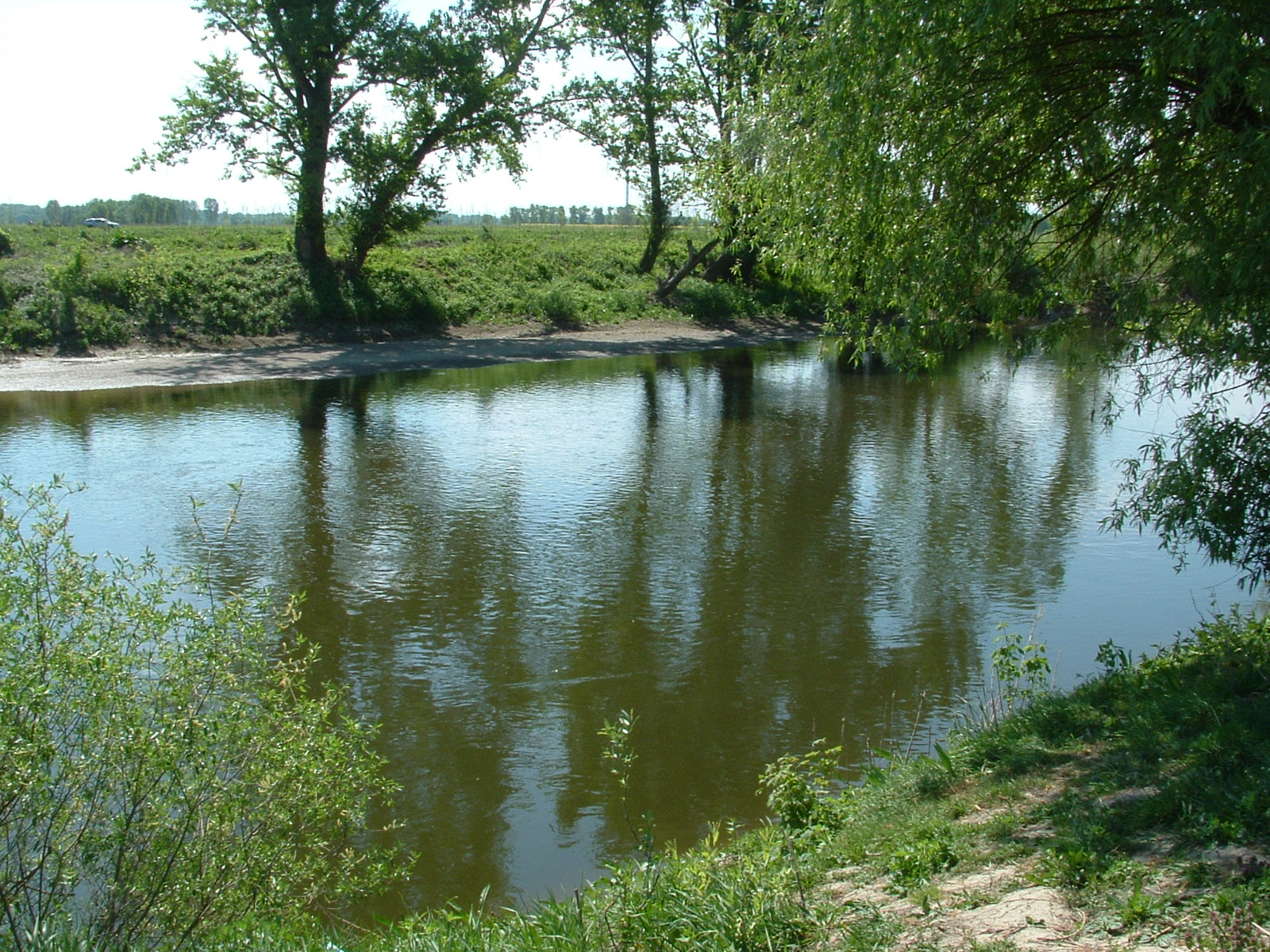 The River Sajó, Kesznyéten, Hungary, EU